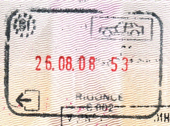 Passport stamp from Rigonce, 2008 (with Harmica in Croatia).